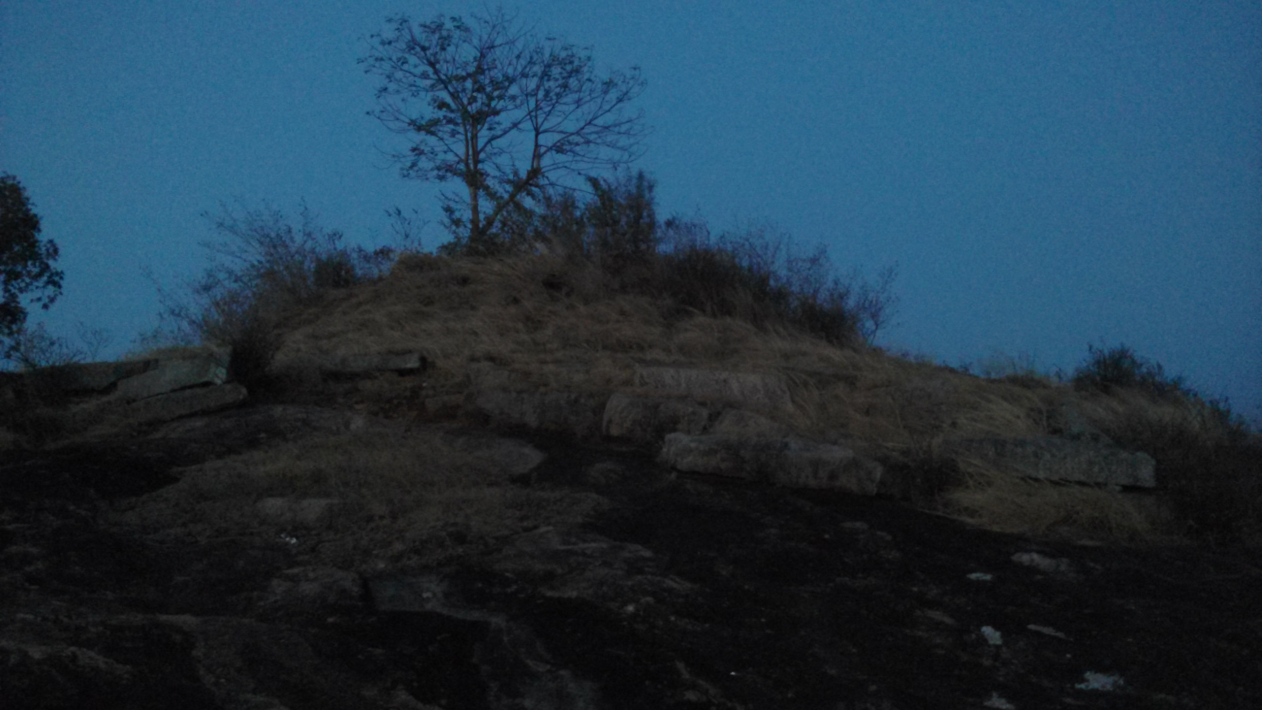 Destroyed pagoda at Sri Naga Girirlen Rajamaha Vihara